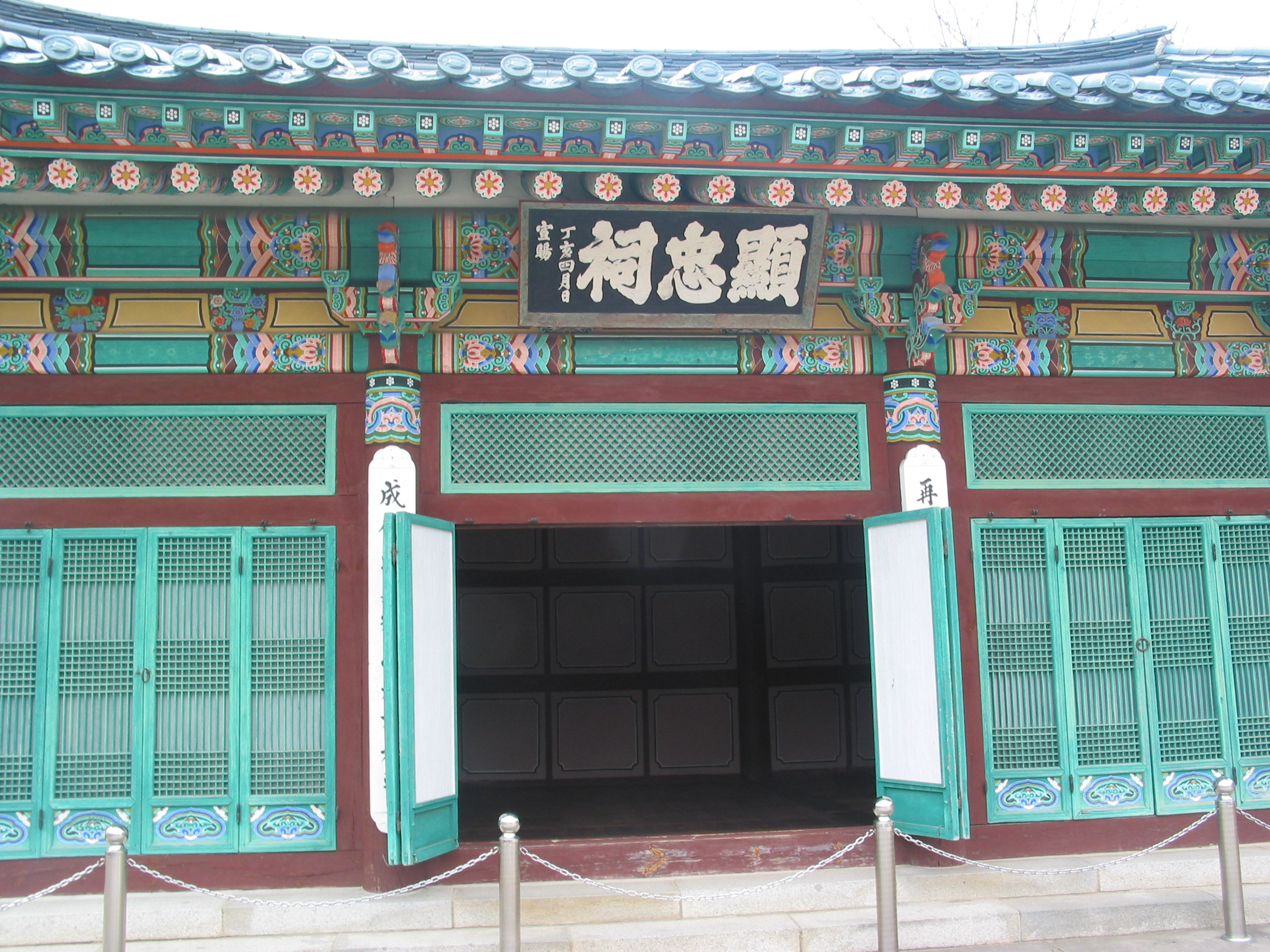 현충사(Hyeonchoong-sa); It is a shrine for 이순신 장군(General Soonshin Lee) who defensed Japanese attack during the mid-age of Choseon.